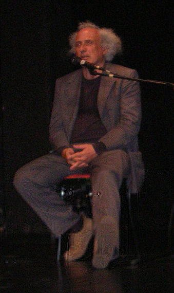 Stefano Benni - Italian satirical writer and journalist.